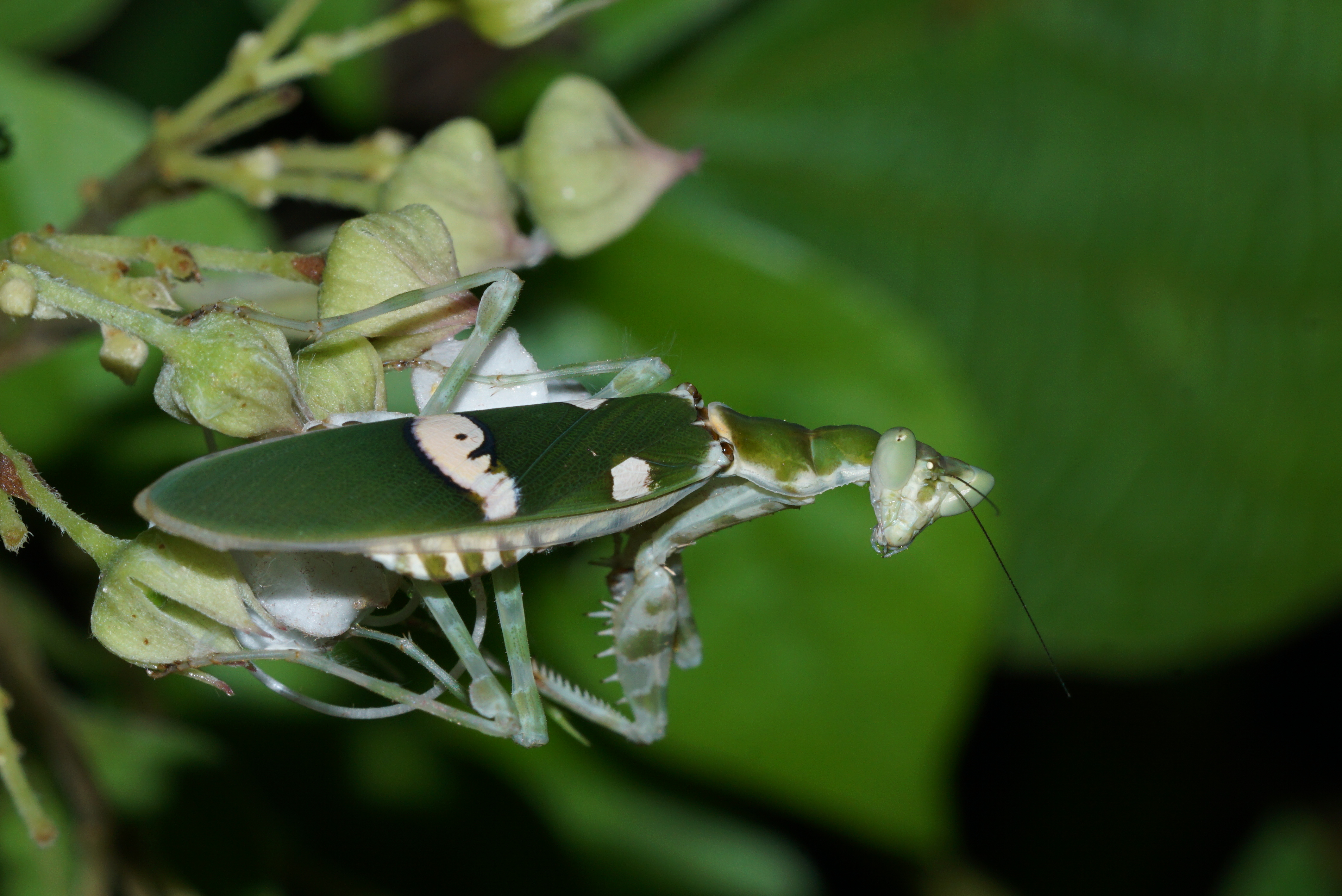 Creobroter gemmatus, common name jeweled flower mantis or Indian flower mantis, is a species of praying mantis native to Asia